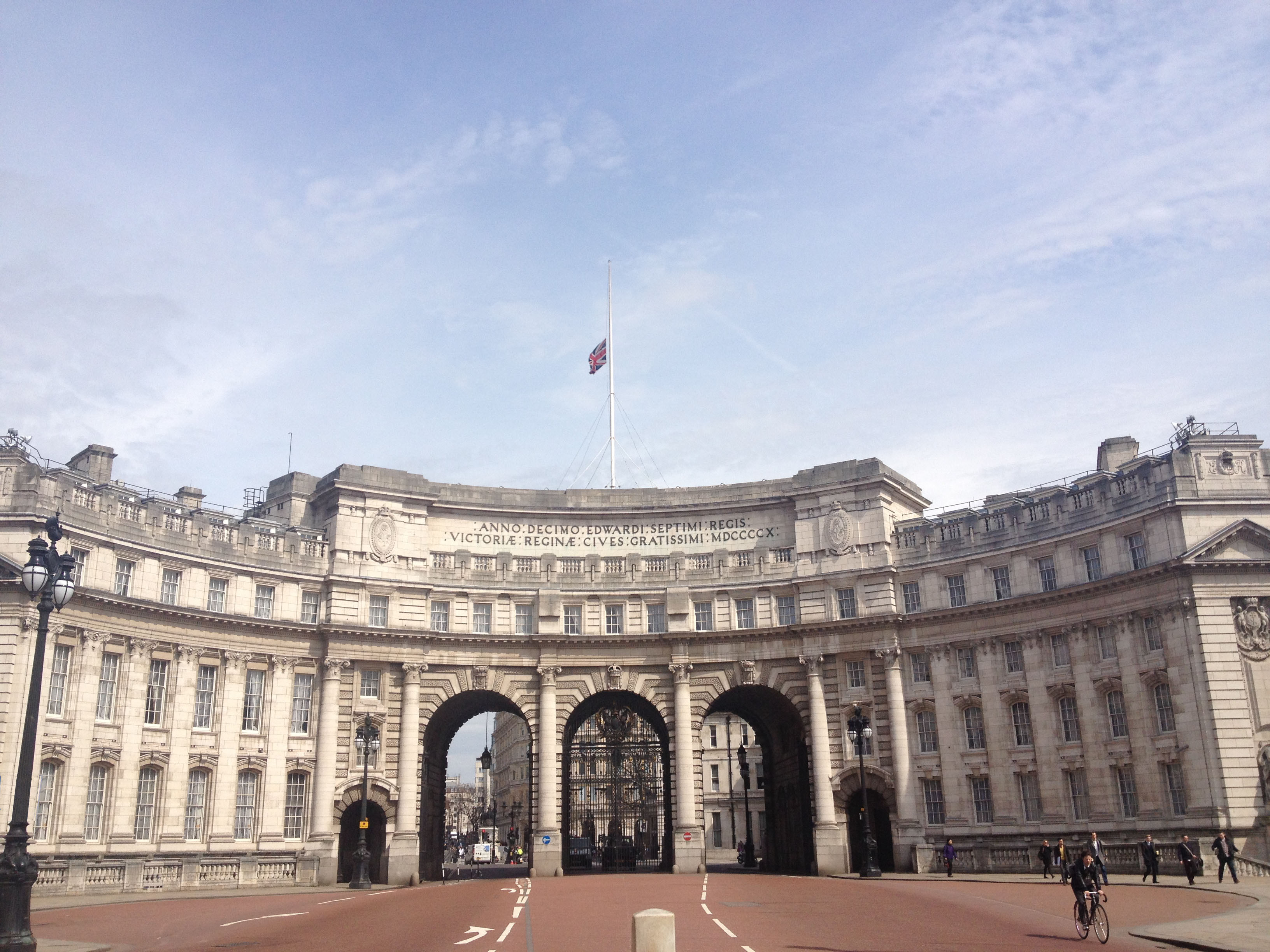 Admiralty Arch, London, with its union flag at half-mast during Baroness Thatcher's funeral